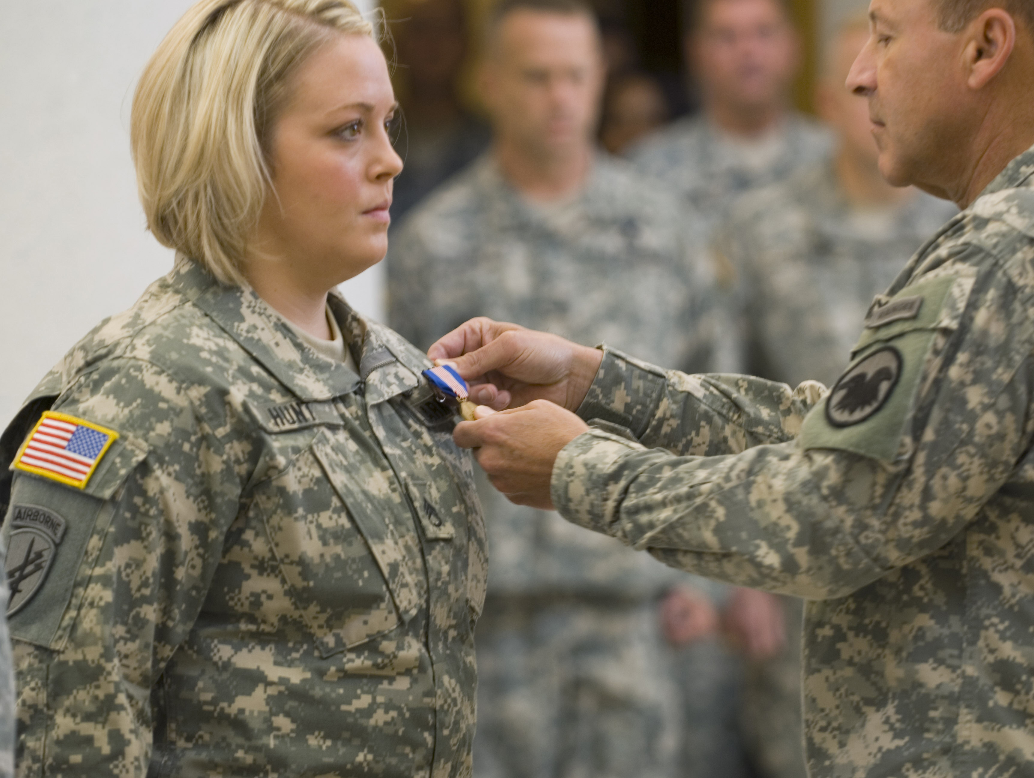 FORT BRAGG, N.C. - Staff Sgt. Jacqueline L. Hunt is awarded the Department of Defense Soldier's Medal by Maj. Gen. Alan D. Bell, Deputy Commander of the U.S. Army Reserve Command, on August 22, 2008. Hunt earned the honor for saving the life of a traffic accident victim who had serious, complex, and life-threatening injuries. She is an Army Reserve Civil Affairs Soldier with the U.S. Army Civil Affairs and Psychological Operations Command (Airborne) and assigned to the 490th Civil Affairs Battalion, located in Abilene, Texas. Photo by Sgt. Sharilyn Wells